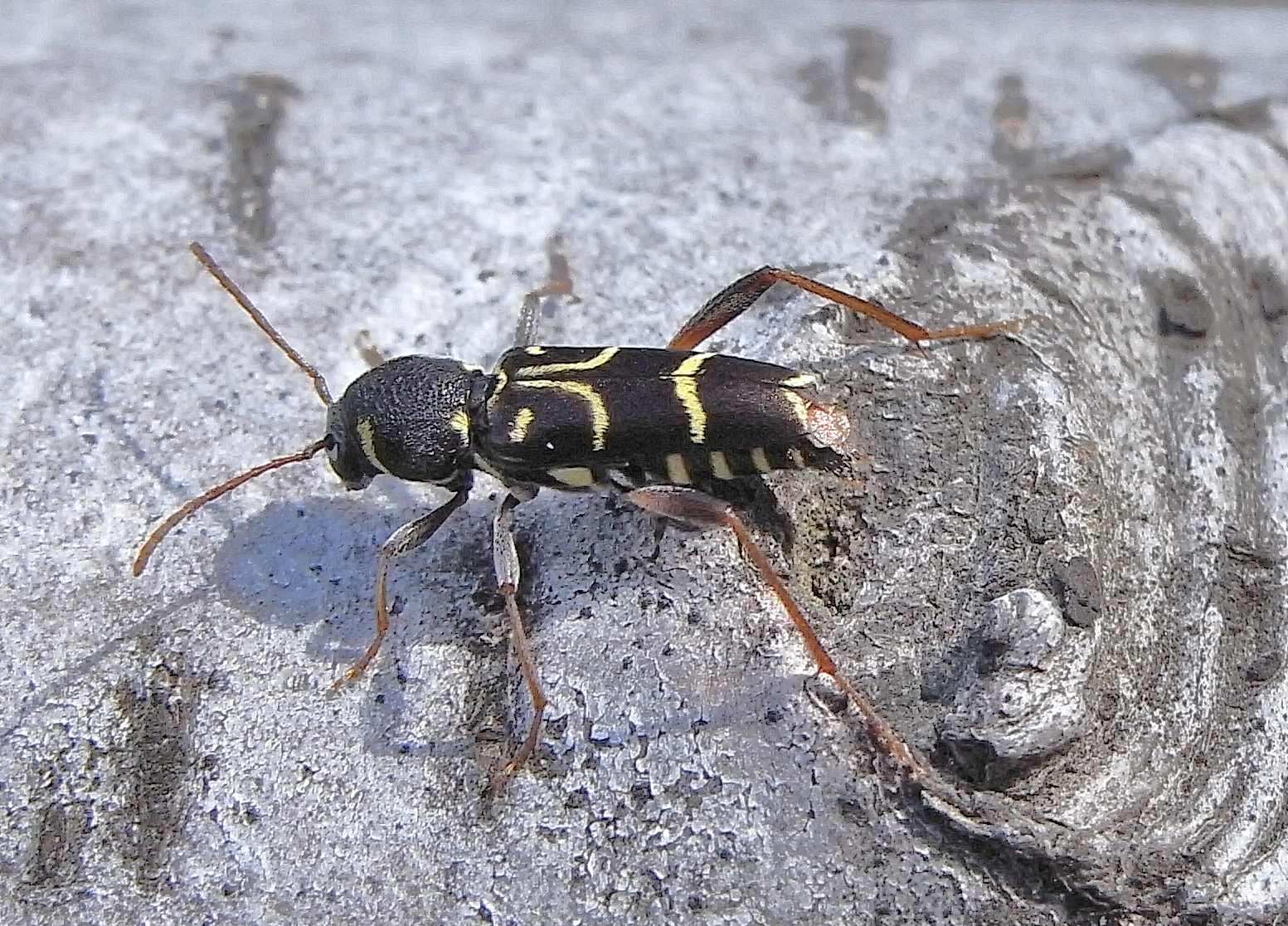 Xylotrechus antilope from Hungary, Matra-mountains on 2010-06-29Ricoh R8